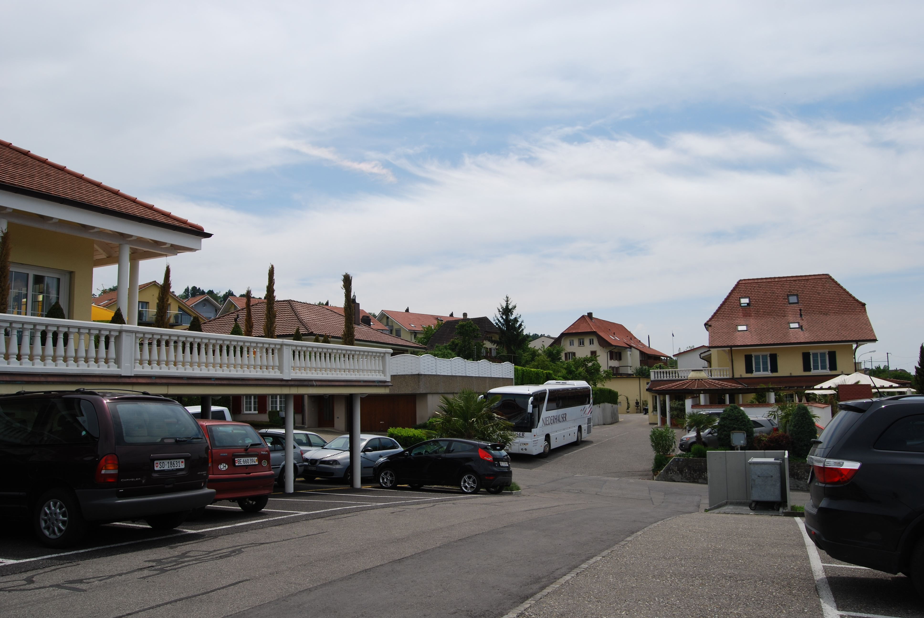 Mörigen, canton of Bern, SwitzerlandEsperanto: Mörigen, Kantono Berno, Svislando